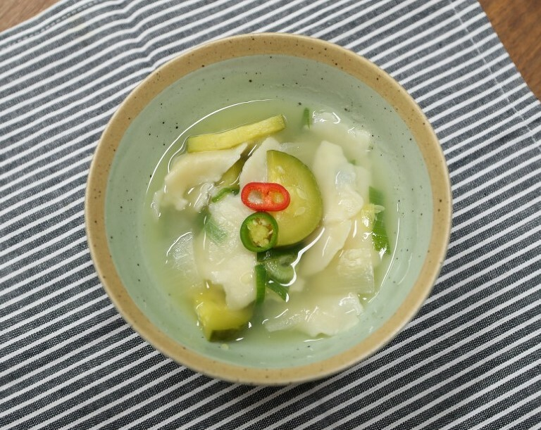 sujebi (hand-torn noodle soup)